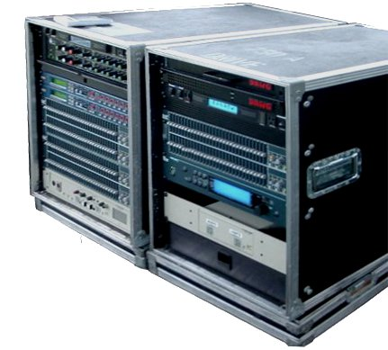 Some racks of outboard gear at a concert FOH position.